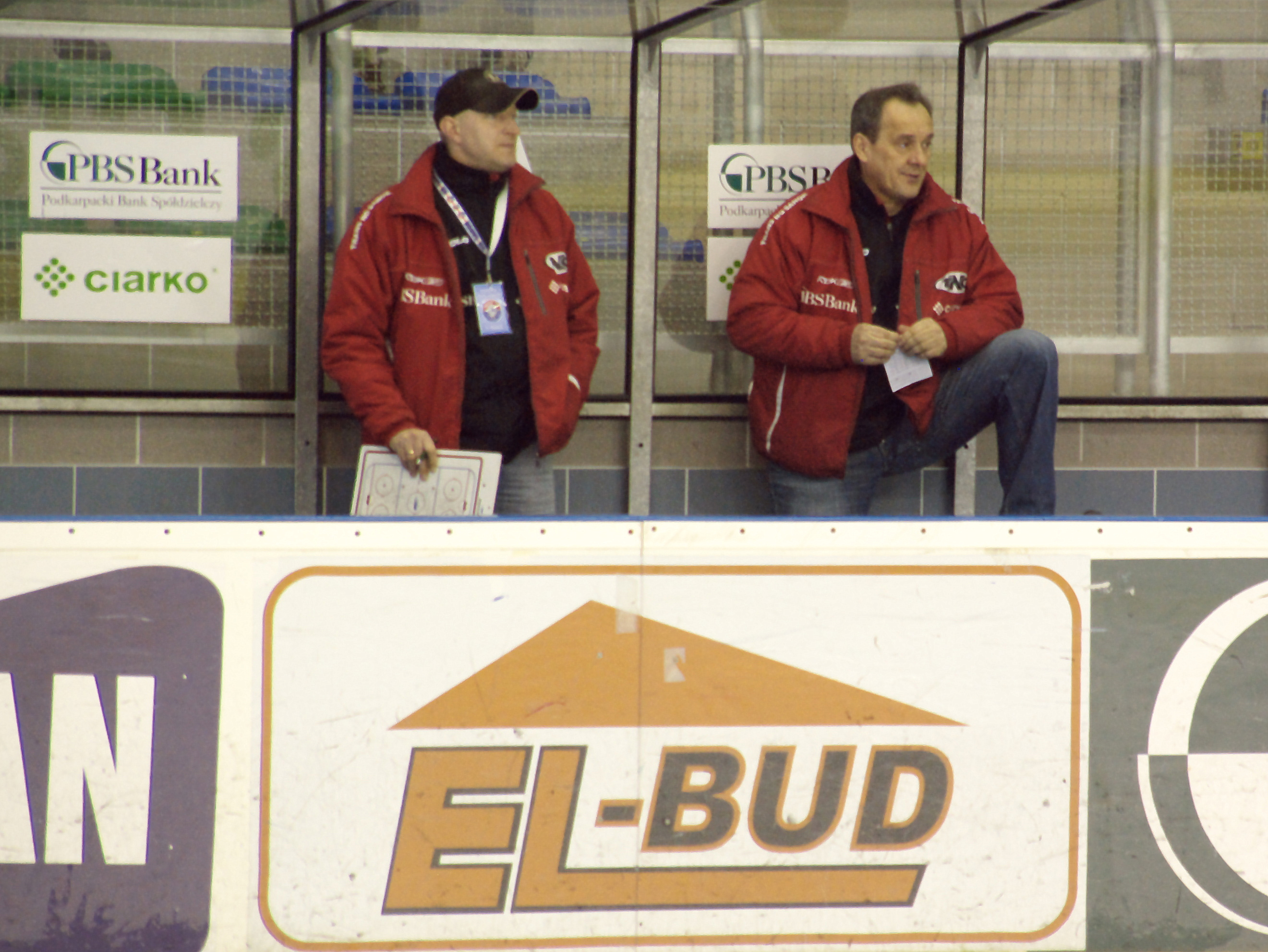 Coaches Marek Ziętara & Milan Jančuška during match KH Sanok - MMKS Podhale Nowy Targ 20.03.2011